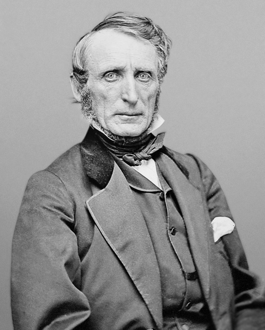 Congressman John A. Bingham during the Civil War.